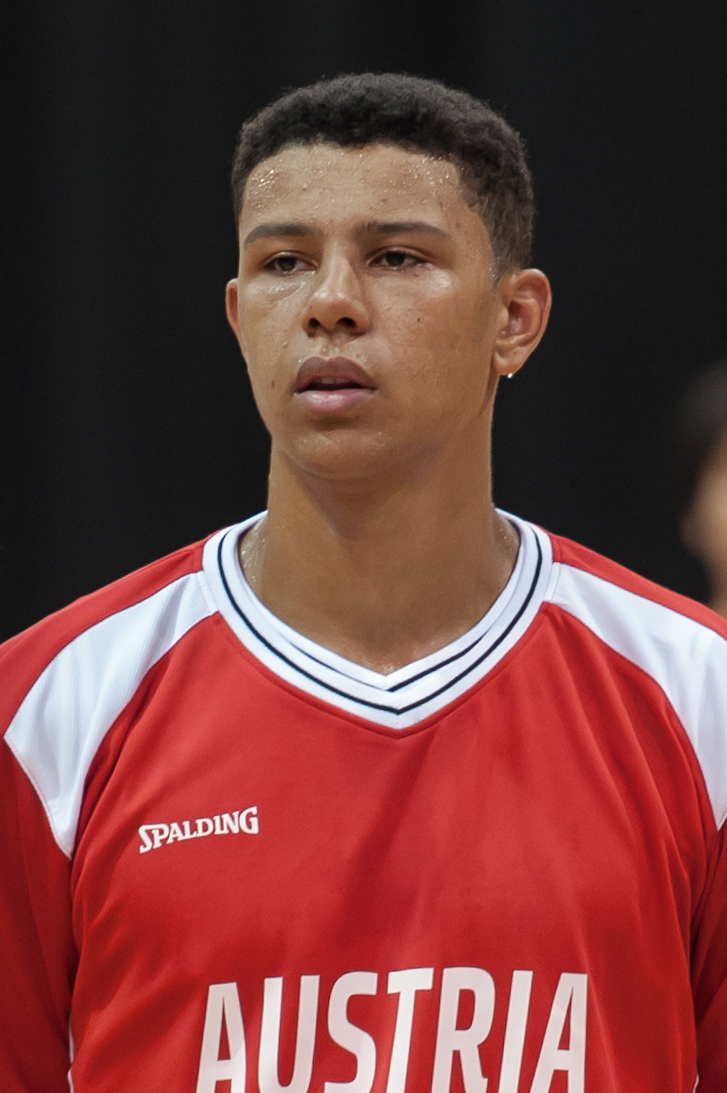 Basketball friendly Austria - Japan, 2015-08-08: Marvin Ogunsipe